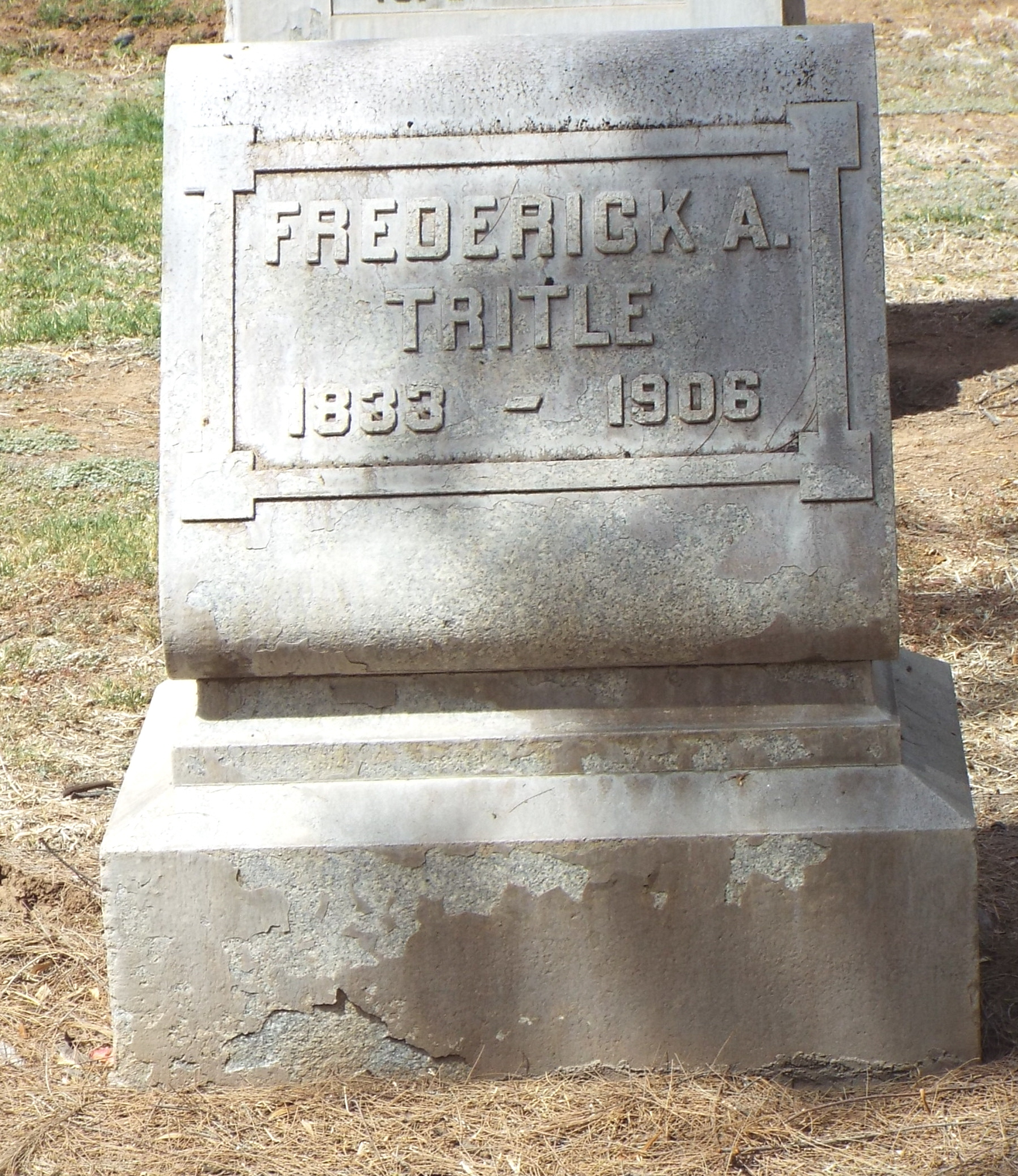 Grave site of Frederick A. Tritle (August 7, 1833-November 18, 1906). Tritle served as the 6th Governor of the Arizona Territory from 1882-1885.